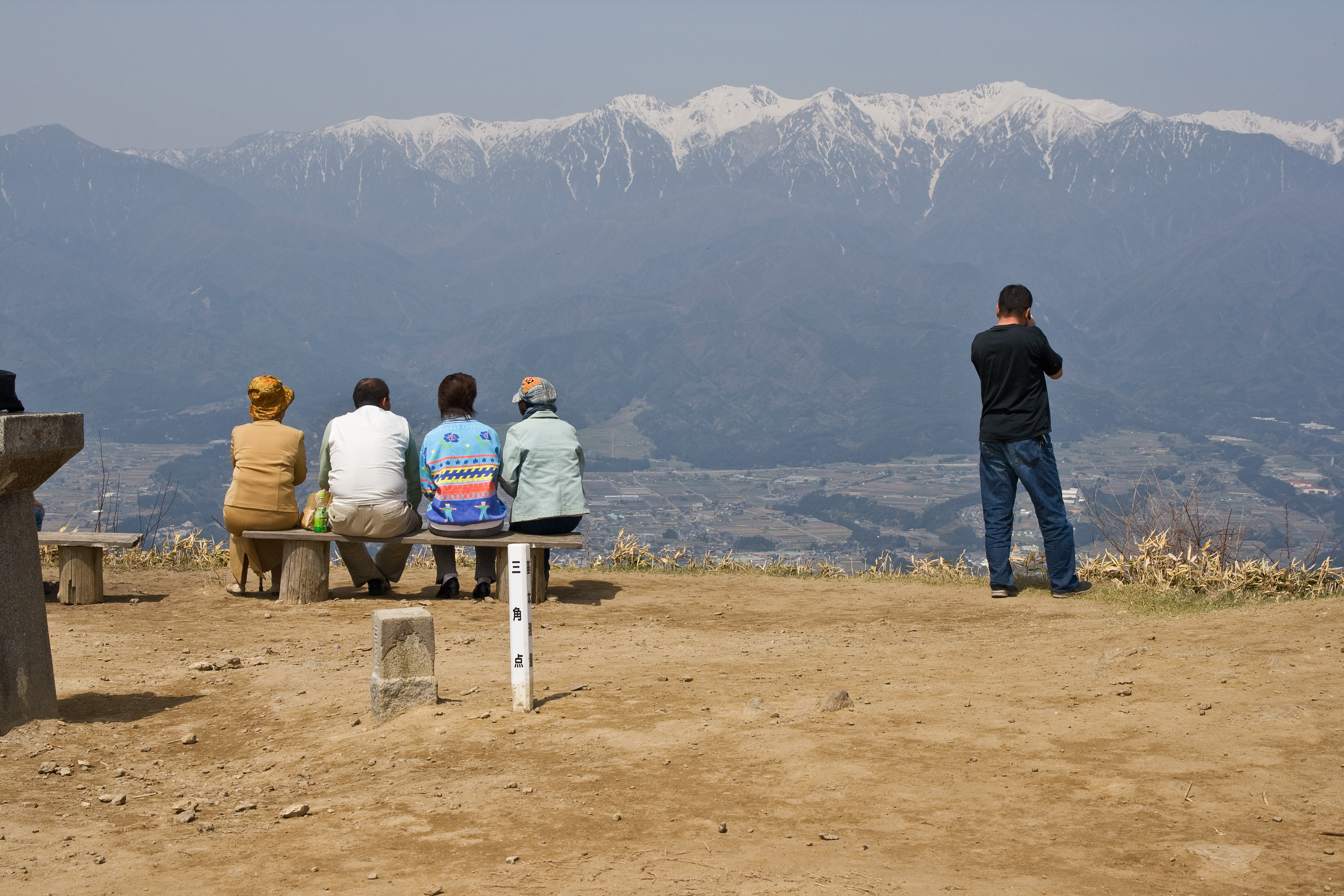 Mts.Kiso as seen from Mt.Jimbagata, Nagano Pref., Japan.